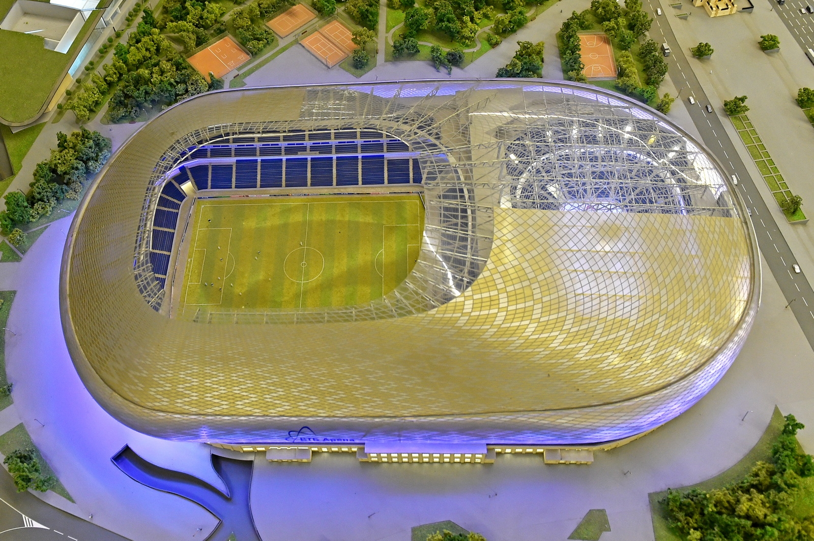 VTB Arena stadium in Moscow